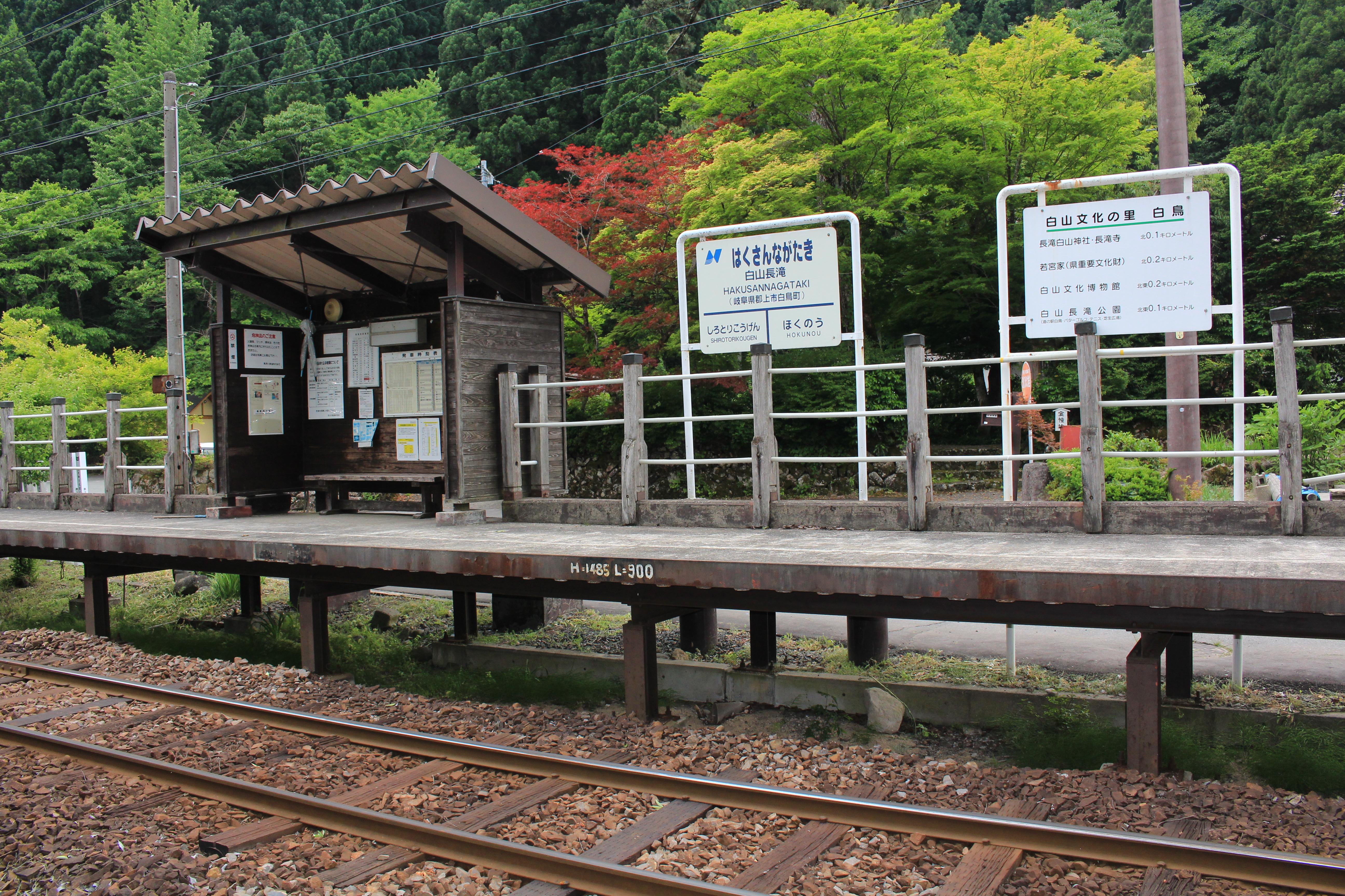 Hakusan-Nagataki Station f Nagaragawa Railway Etsumi-Nan Line in Gujō, Gifu prefecture, Japan.